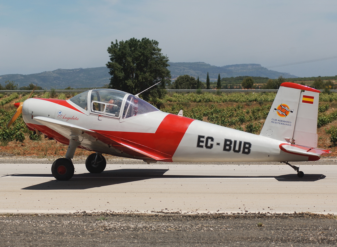 Aisa I-11B